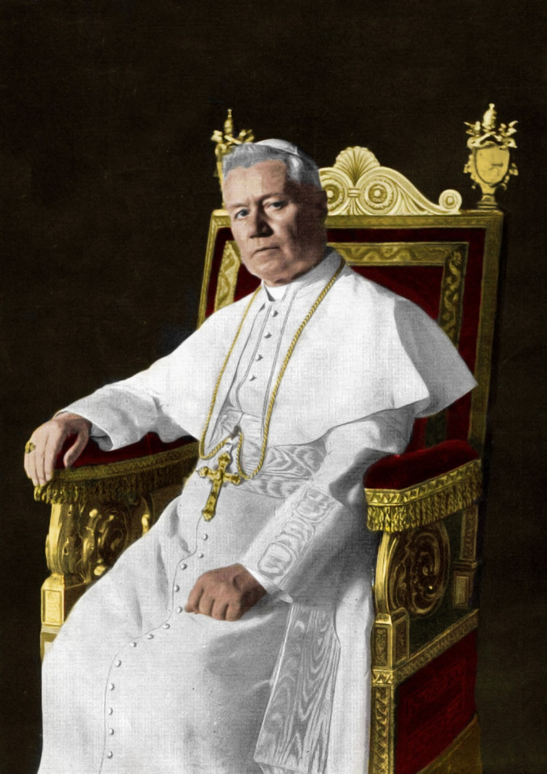 Picture of Pope Pius X., from October 1903, on page of Catholic Missions for Germany and Austria-Hungary, in Freiburg in Breisgau. (Digitally colored)